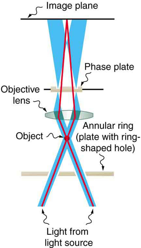 Simplified construction of a phase-contrast microscope